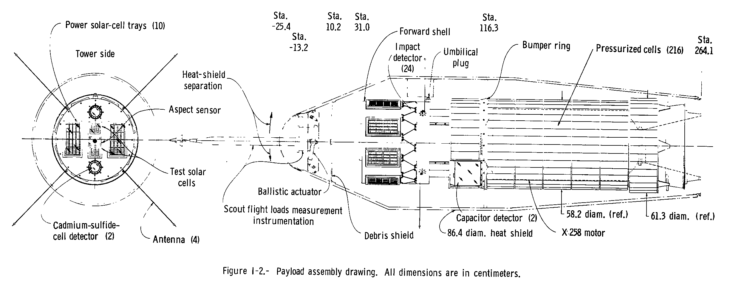 Overview scheme of Explorer 23 satellite. Extracted from NASA Technical Note PDF file.